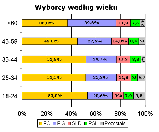 European Parliament election in Poland 2009 - exit polls by SMG/KRC. Voters by age. Source: [1]